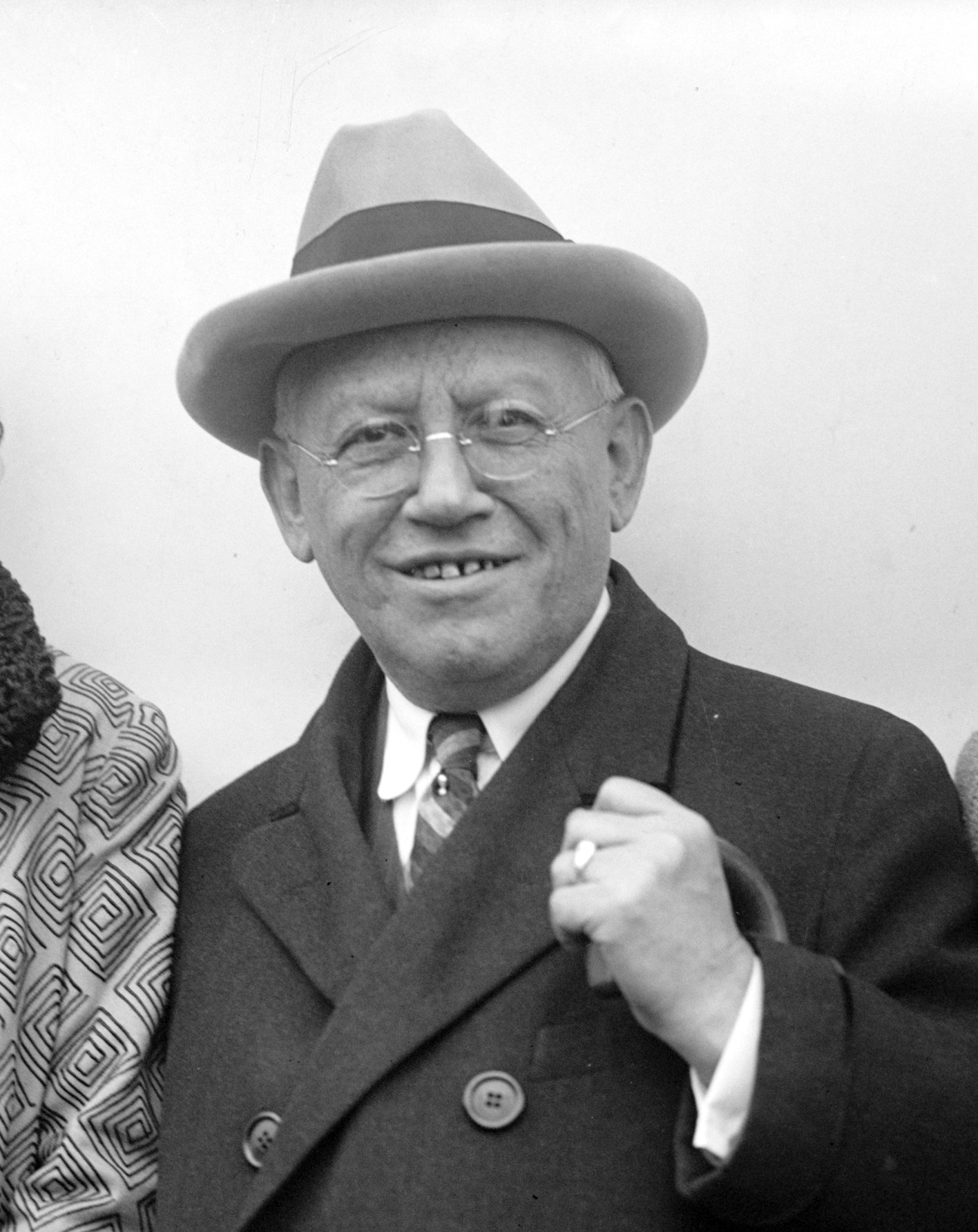 Carl Laemmle